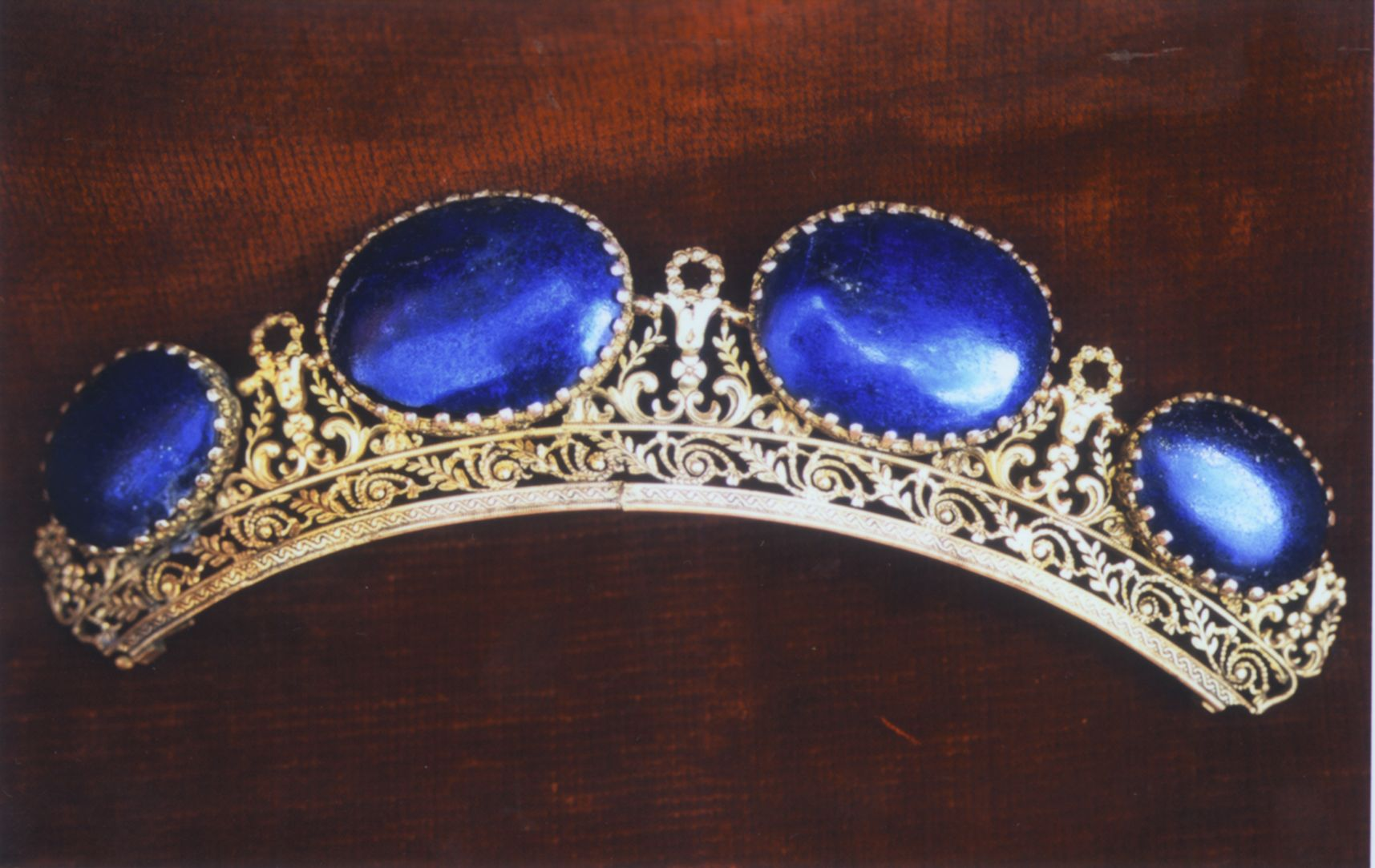 photo (R. de Salis) of a c1810 object given to Henrietta Foster the third wife to Jerome de Salis, FRS, Count de Salis.Rodolph (talk) 19:17, 23 December 2007 (UTC)